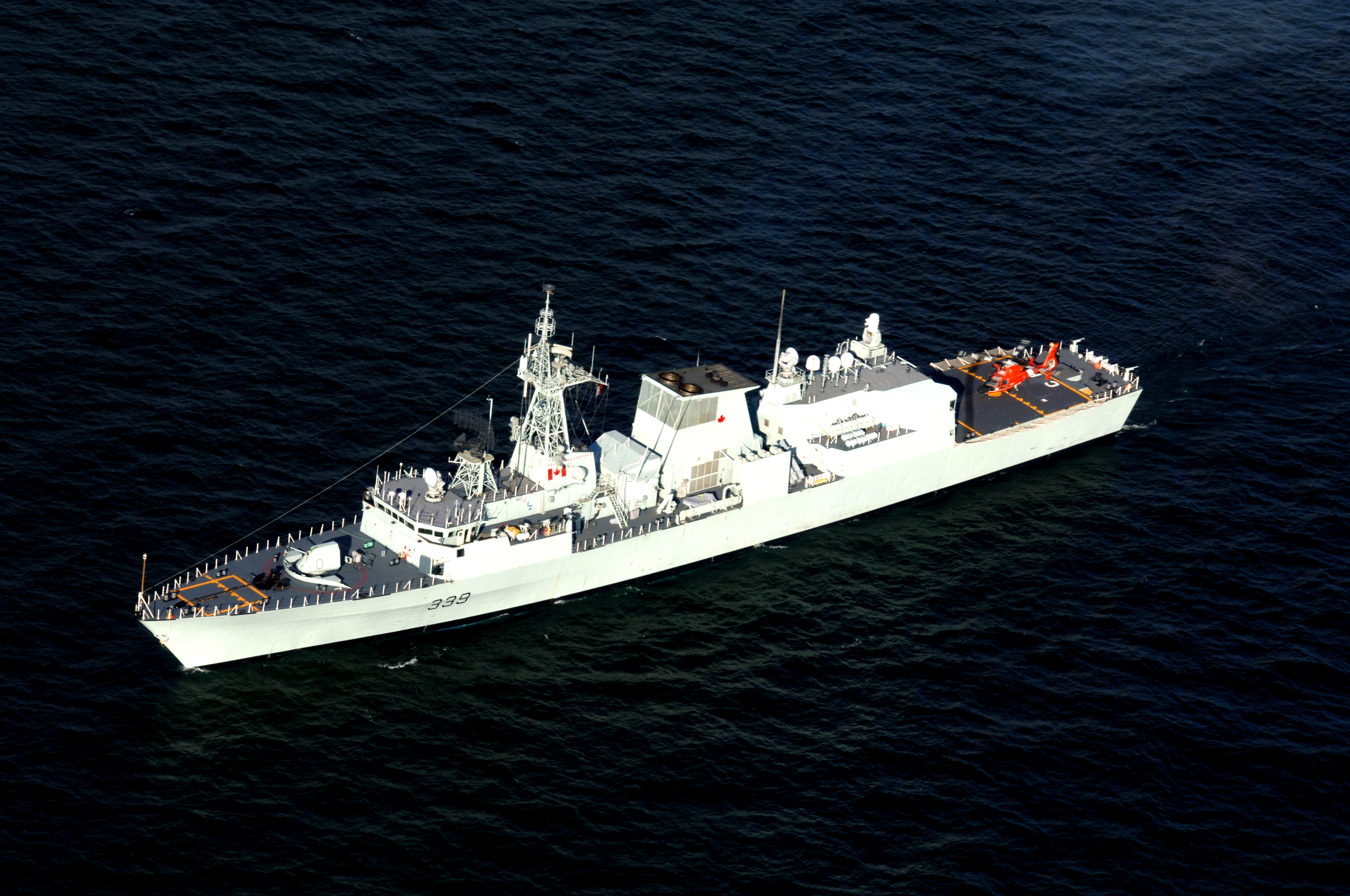 CLEVELAND -- An Air Station Traverse City HH-65 crew landed on the fantail of HMCS Charlottetown for a series of maneuvers for the arrival of the 442-foot Canadian Navy frigate as it headed for Dock 32 in downtown Cleveland to participate in Patriot's Day observances Wednesday, Sept. 10, 2008. The Charlottetown recently completed a six-month deployment to the Persian Gulf and Arabian Sea as part of Canada's continuing contributions to the campaign against terrorism known as Operation Enduring Freedom. (Photo by Petty Officer Bill Colclough/U.S. Coast Guard)